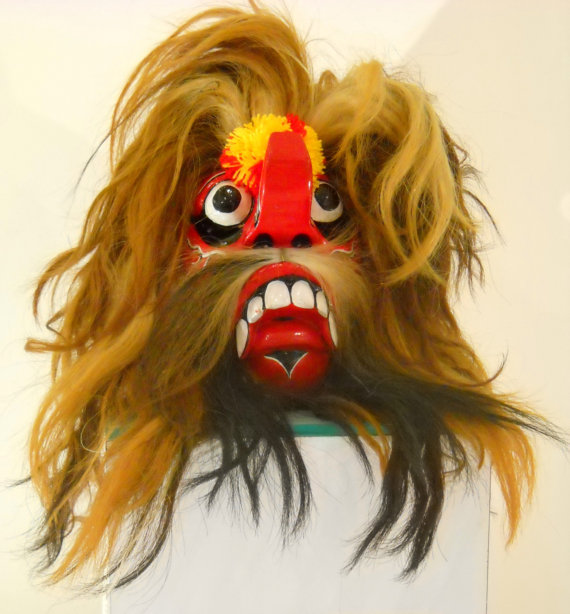 Mask of Bujangganong, one of the performer in Reog Ponorogo dance, East Java